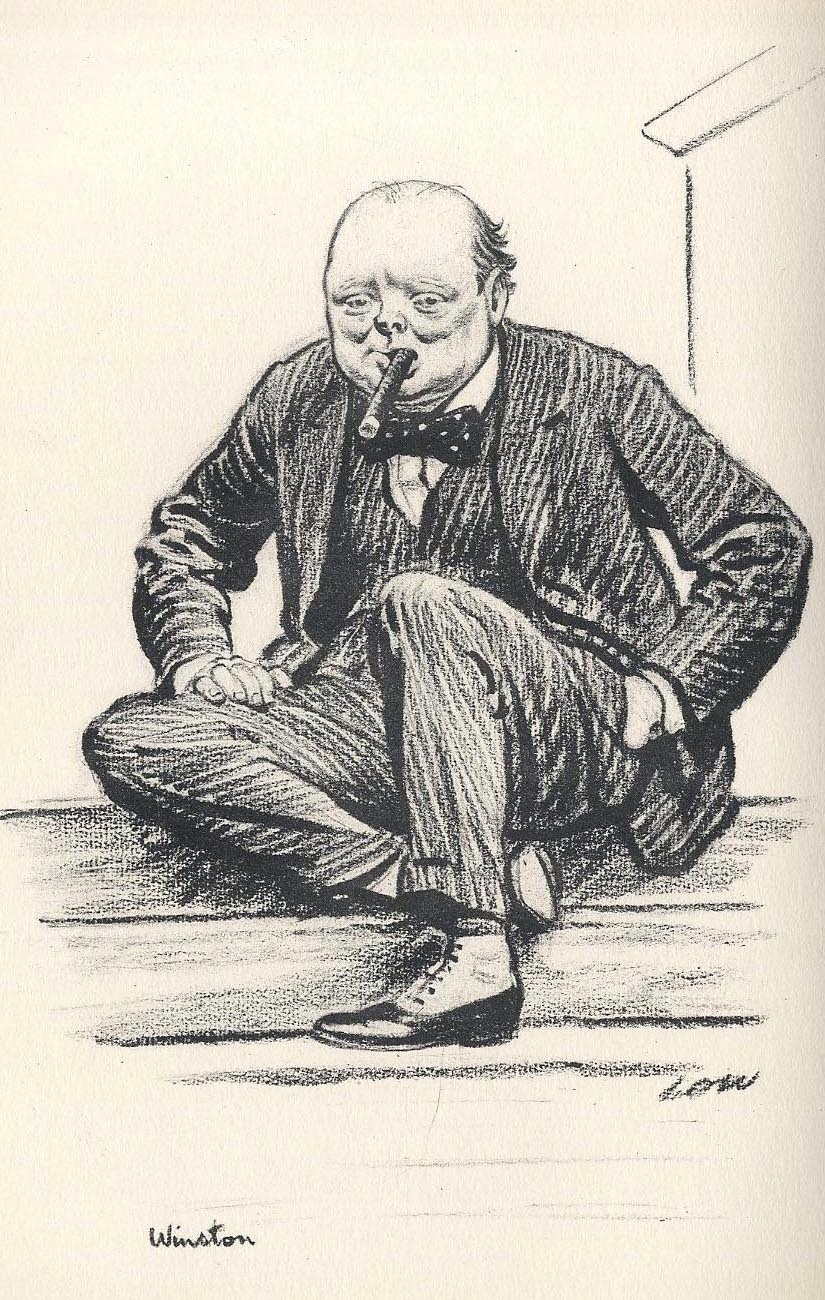 Caricature of Winston Churchill in Lions and Lambs